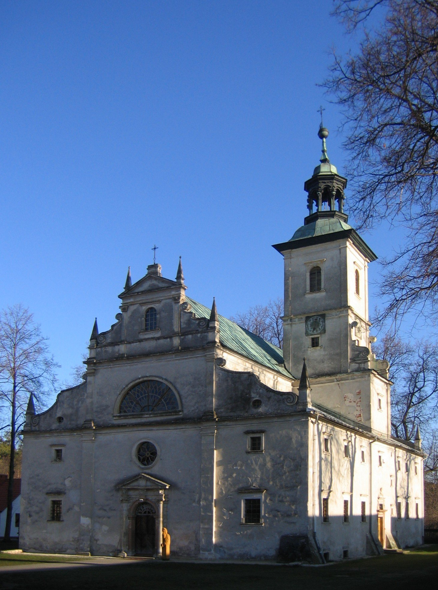 The church in Camaldolese Monastery in Rytwiany, Poland.